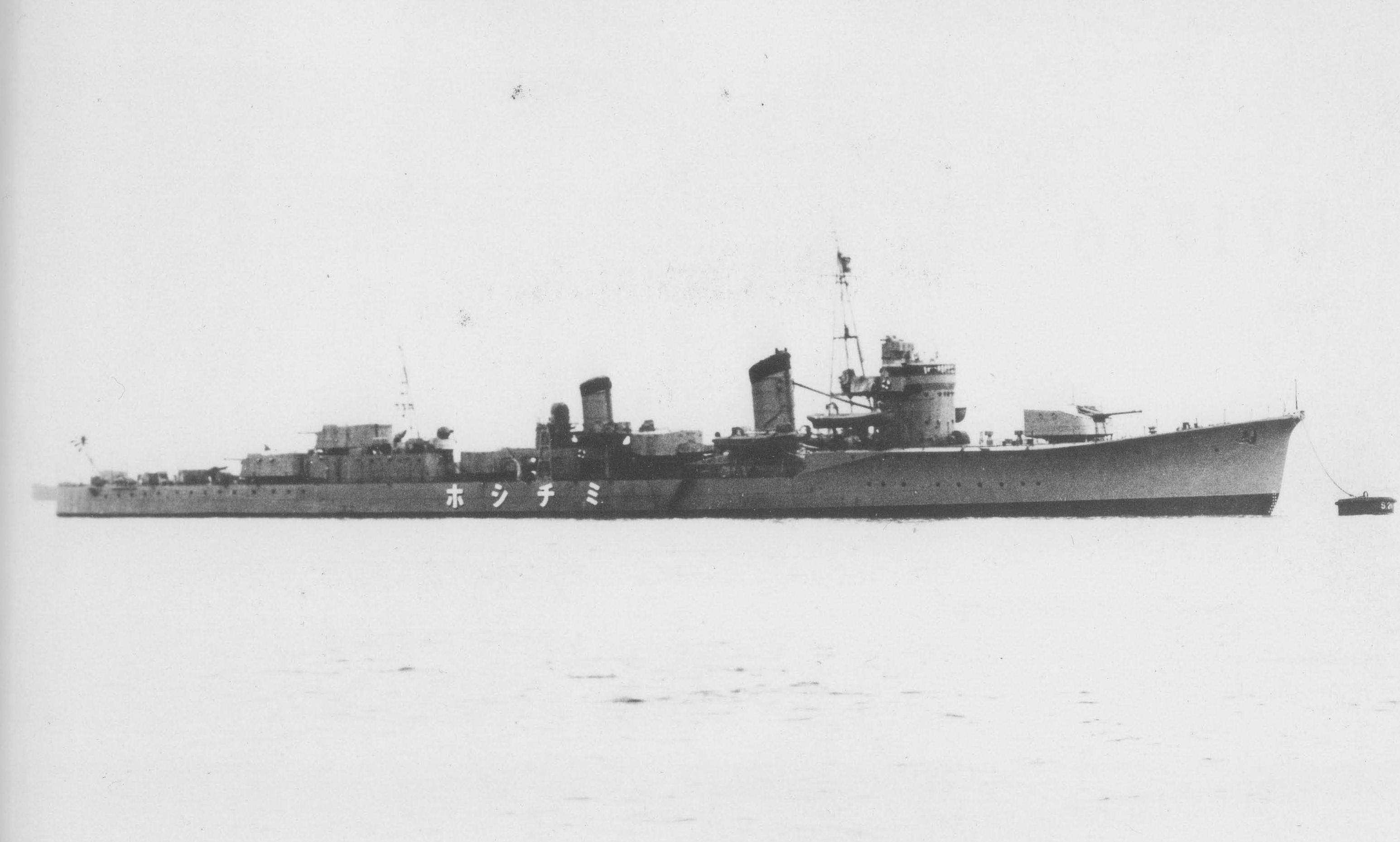 Imperial Japanese Navy destroyer Michishio